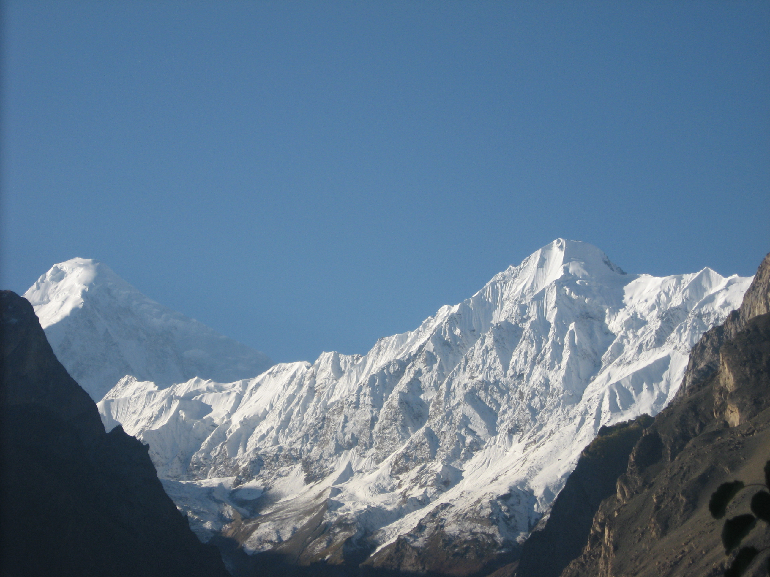 View south from Karimabad through Sumayar Valley towards Diran on the left. (The peak on the right is NOT on the ridge between Diran and Rakaposhi)